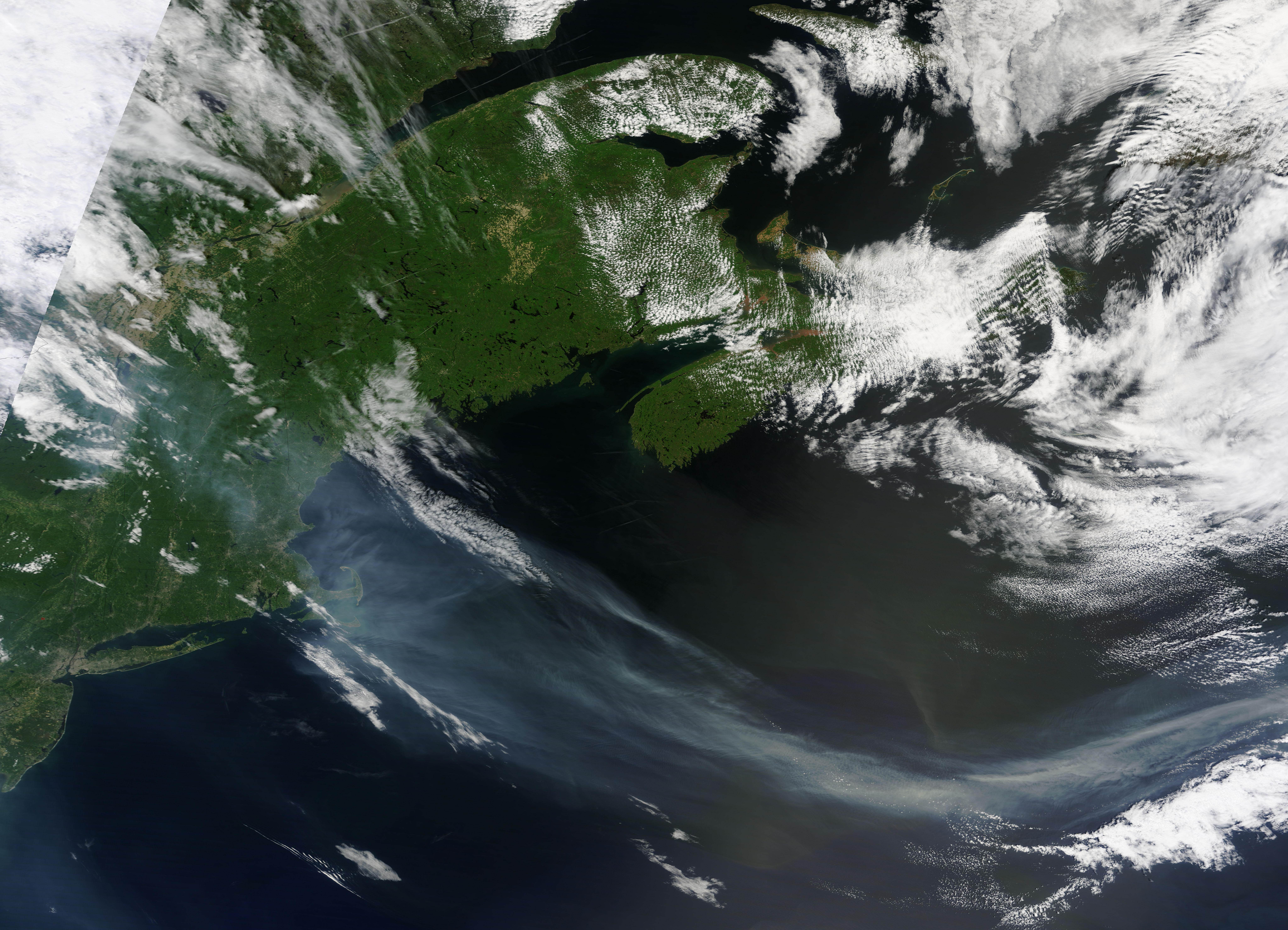 Image showing smoke over New England and the North Atlantic Ocean after forest fires in Quebec. A pale grey smoke plume spans the entire width of the image—about 1,900 kilometres. The plume is over 200 kilometres wide near Cape Cod, but it narrows offshore. The fires are under cloud and just beyond the upper edge of the image, but the St. Lawrence River and Quebec are visible.